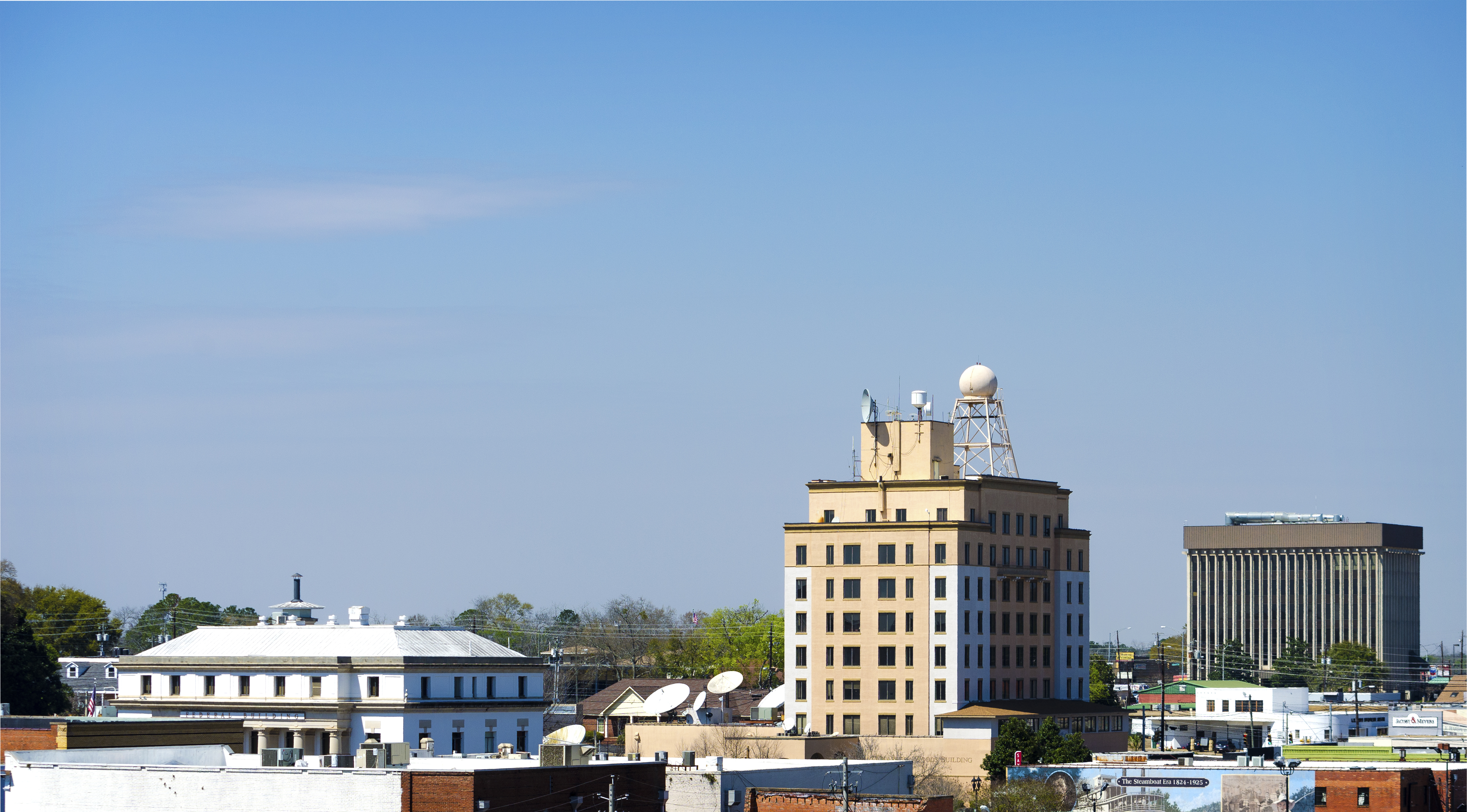 Downtown Dothan (c. March 2017)